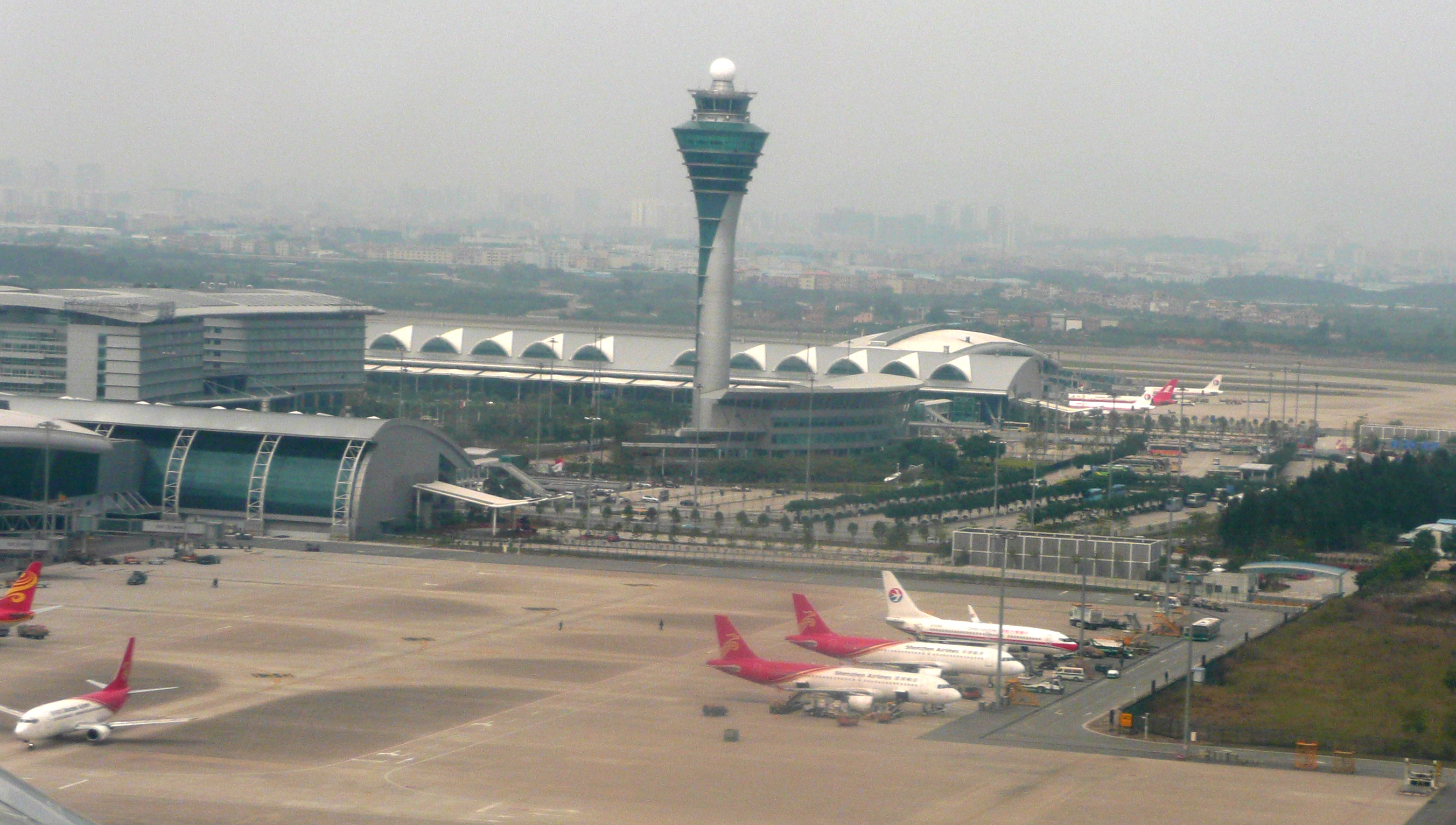 Birds view of the Guangzhou Baiyun International Airport, China